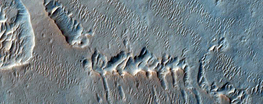 Ridges in Terra Meridiani There might be as many as three fractures in this terrain: how did they form? Was there some kind of flow or something else? Terra Meridiani is one of the more complex regions on Mars, with a rich array of sedimentary, volcanic, and impact surfaces that span a wide range of Martian history. NASA/JPL/UArizona